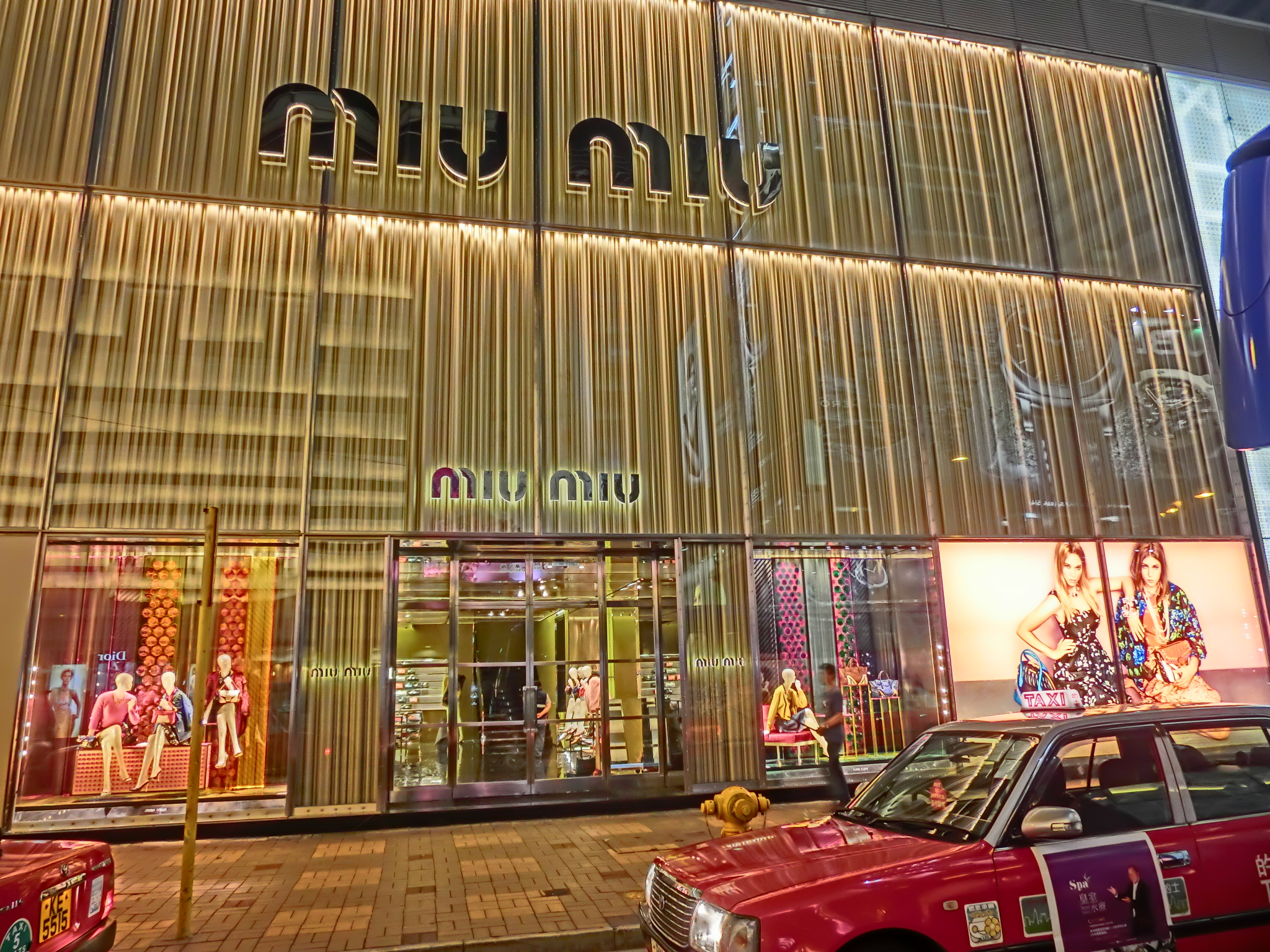 One Peking, 北京道1號, Peking Road, Canton Road, Tsim Sha Tsui, Hong Kong